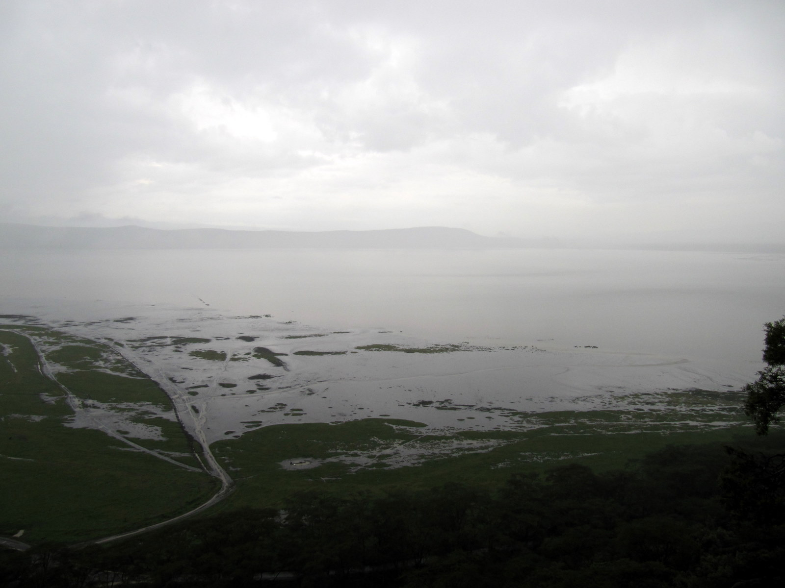 Lake Nakuru, Kenya. Rainy day